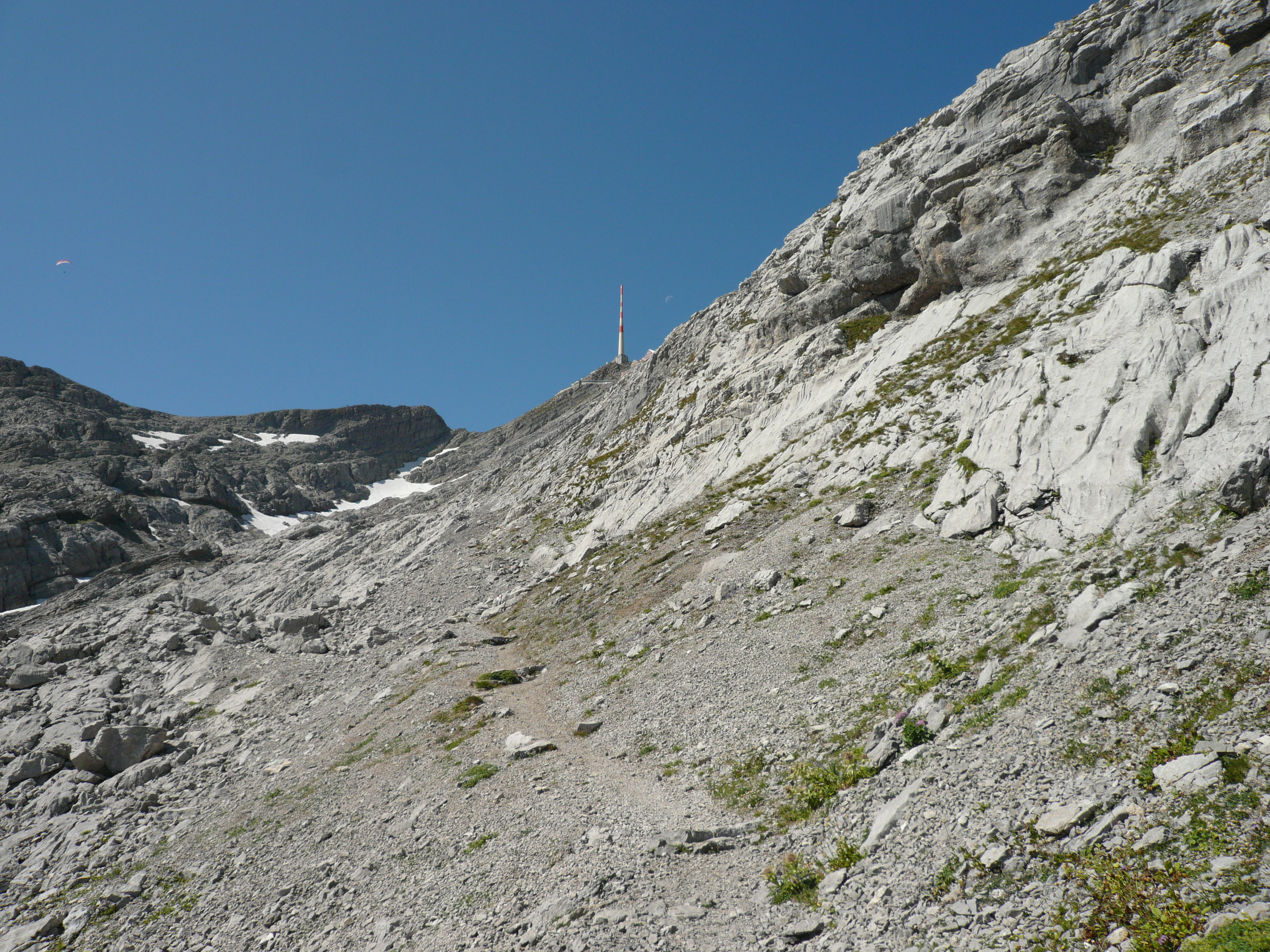 Hike from Wagenluecke to Saentis, Switzerland